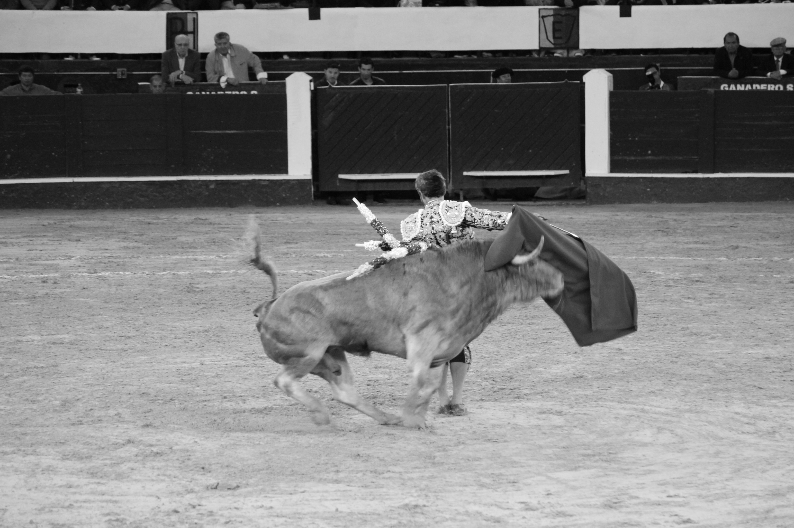 Pase por la espalda con la muleta de Luis Bolívar